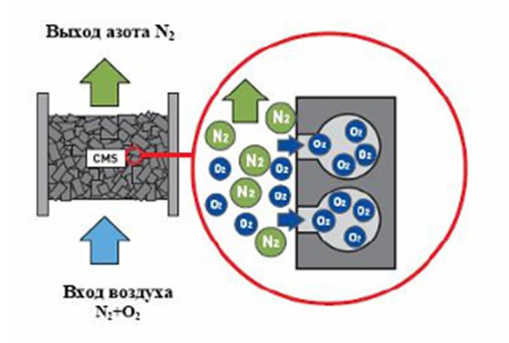 Adsorption